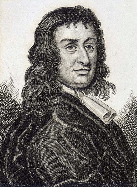 Illustration of Colonel Thomas Blood